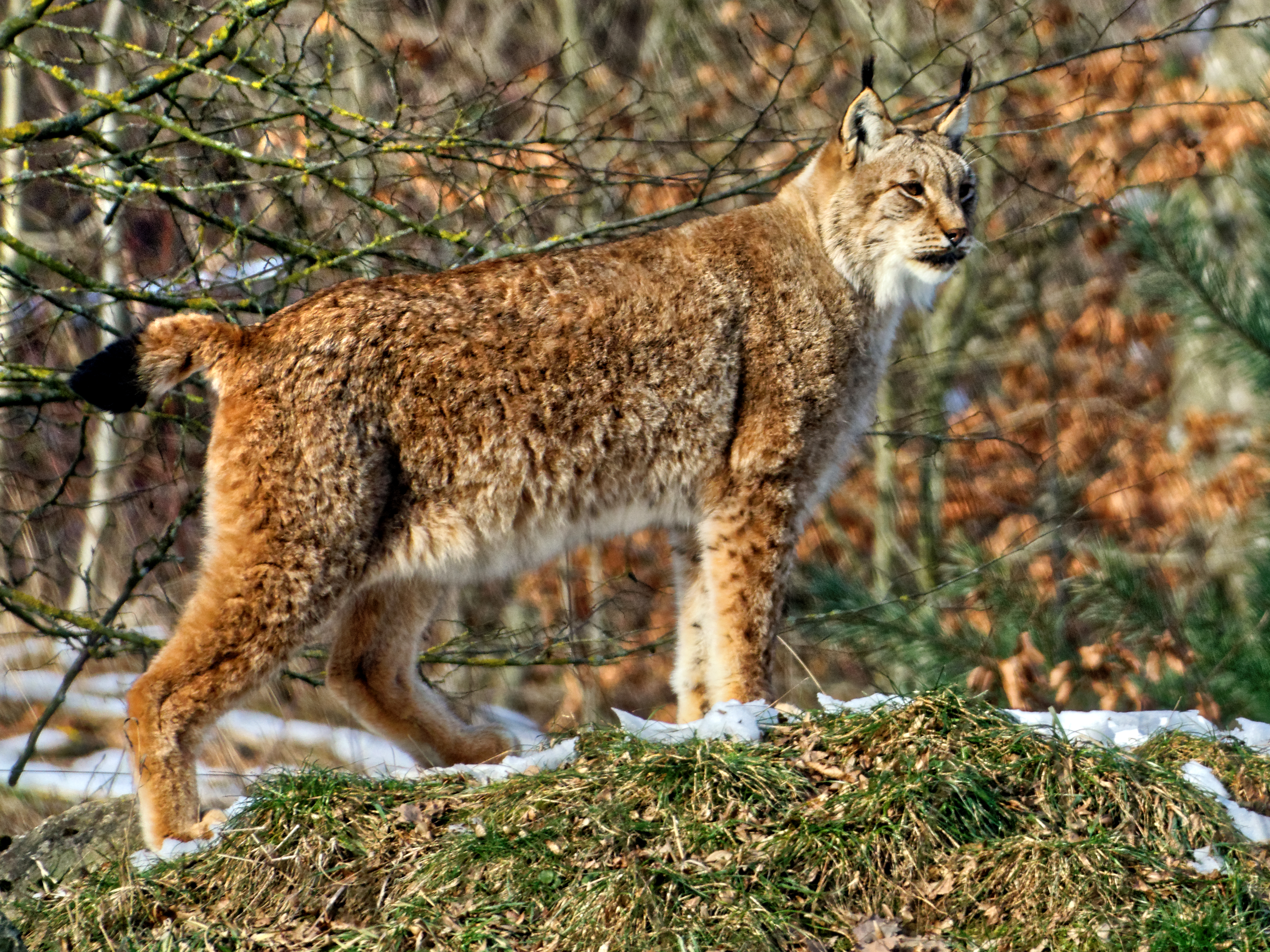 The Wildlife Park Bad Mergentheim in the winter.